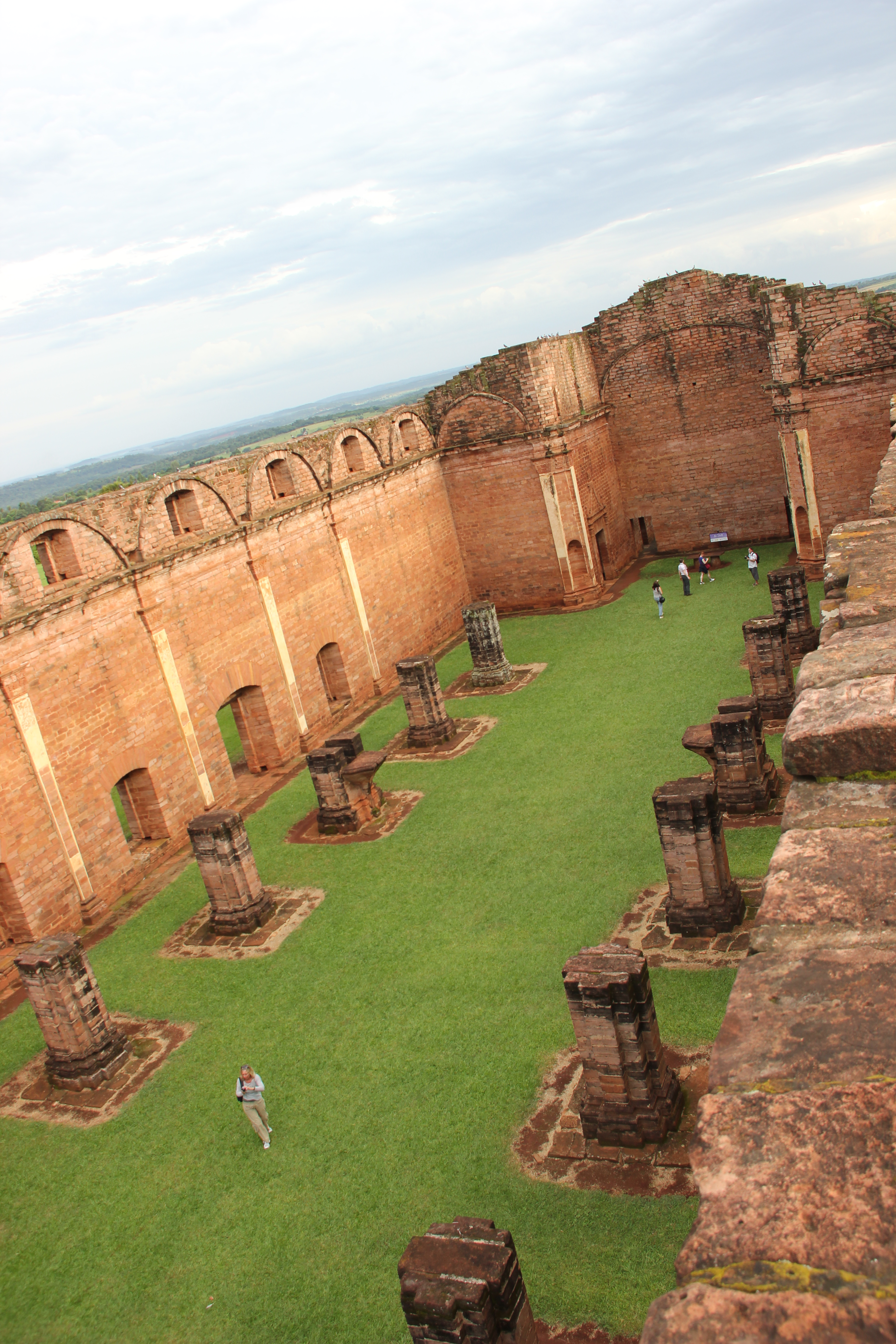 Jesus de Tavarangue - from above